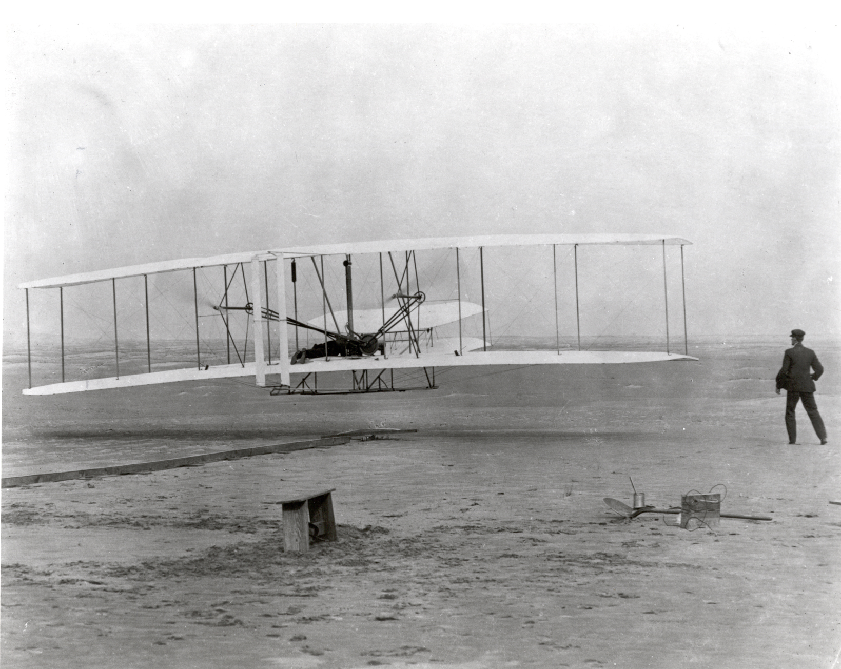 On December 17, 1903, at 10:30 am at Kitty Hawk, North Carolina, this airplane arose for a few seconds to make the first powered, heavier-than-air controlled flight in history. The first flight lasted 12 seconds and flew a distance of 120 feet. Orville Wright piloted the historic flight while his brother, Wilbur, observed. The brothers took three other flights that day, each flight lasting longer than the other with the final flight going a distance of 852 feet in 59 seconds. This flight was the culmination of a number of years of research on gliders.Orville and Wilbur Wright's curiosity with flight began in 1878 when their father, Milton, gave them a rubber band powered toy helicopter. Although they were never formally educated, the self-taught engineers constantly experimented with kites and gliders. Bicycle shop owners by occupation, the brothers spent years designing, testing and redesigning their gliders and planes. After the successful flights of December 17, 1903, Orville and Wilbur continued to perfect their plane. In 1909 the Army Signal Corps purchased a Wright Flyer, creating the first military airplane. Although Wilbur passed away May 30, 1912, from typhoid fever, Orville remained an active promoter of aviation until his death on January 30, 1948.The Air Age truly began with that historic flight on December 17, 1903. In 1908 the Wright Brothers designed the first military aircraft for the Army Signal Corps. Seven years later, in 1915, the National Advisory Committee for Aeronautics (NACA) became the nations leading aviation research organization, of which Orville was a member for 28 years. As the airplane became more aerodynamic and technically advanced, its uses expanded into many different directions. Military aircraft played significant roles in both World War I and World War II. The airplane made worldwide travel and exploration possible. Spaceflight would never have been realized without the pioneering achievements of the Wright Brothers.